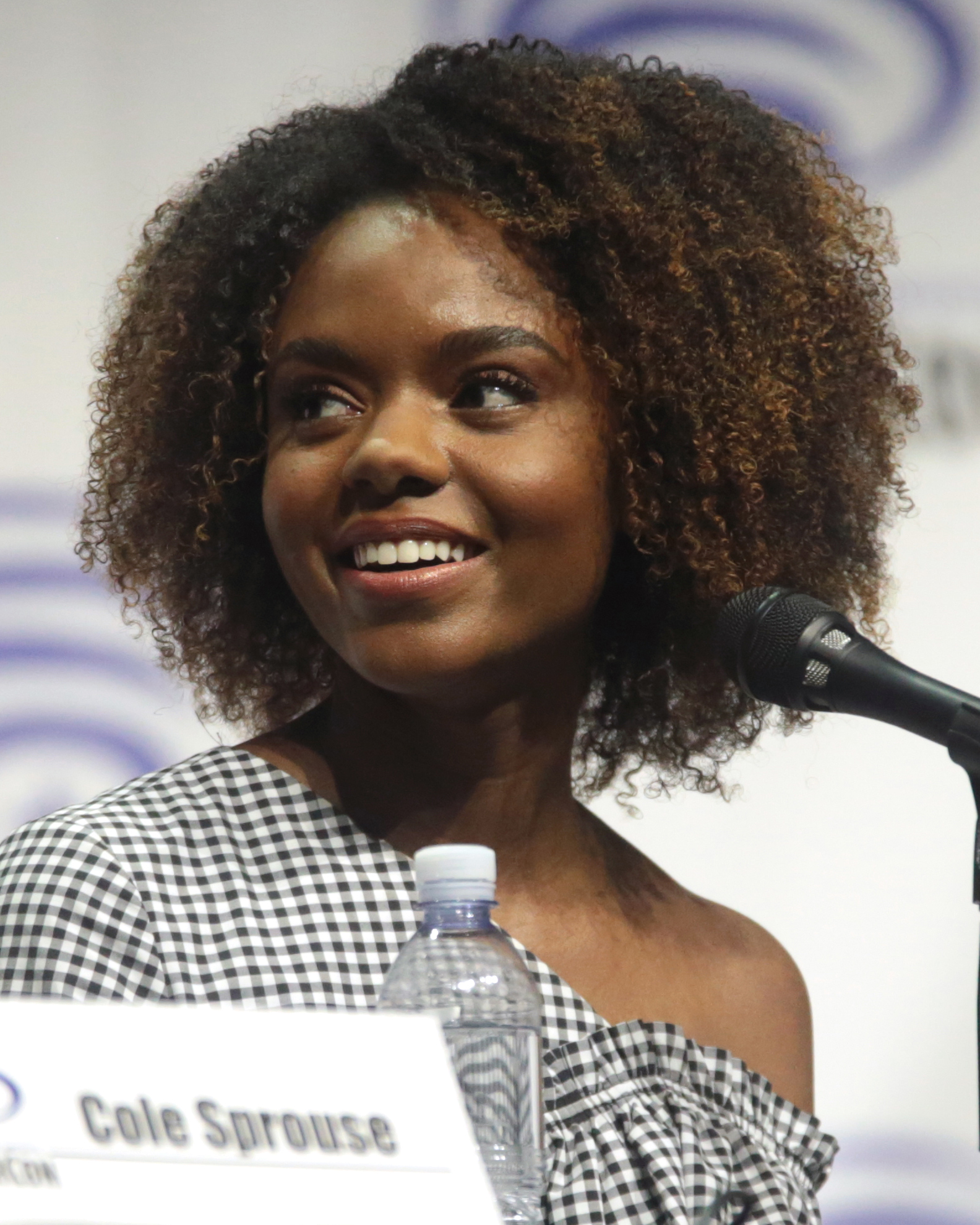 Ashleigh Murray speaking at the 2017 WonderCon in Anaheim, California.